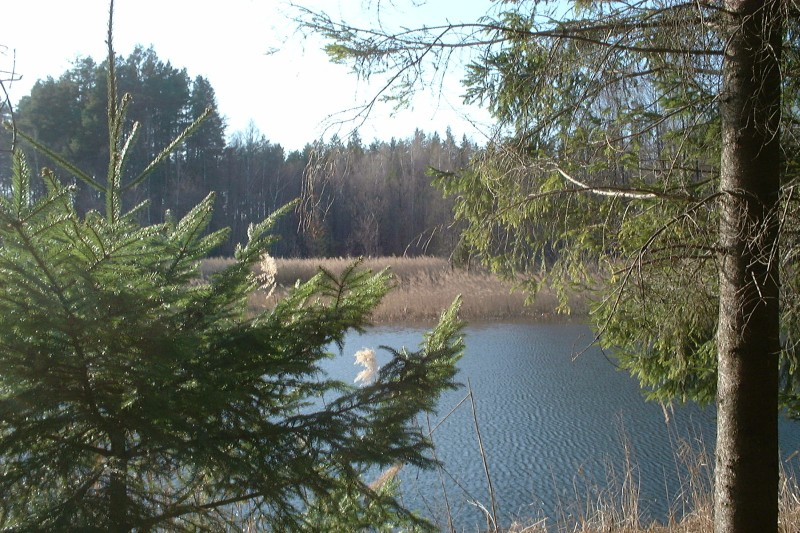 Poland, Perkuc Natural Reserve.